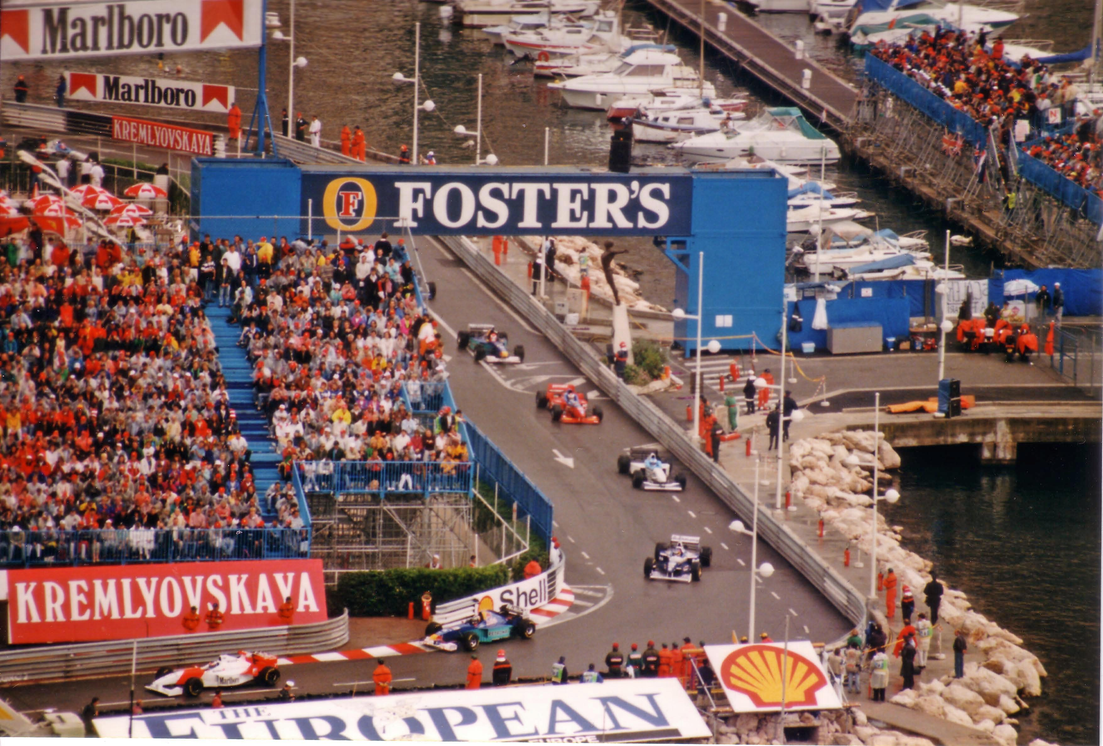 The field on the warm-up lap before the 1996 Monaco Grand Prix. The cars, starting from the front, are Mika Hakkinen (McLaren), Heinz-Harald Frentzen (Sauber), Jacques Villeneuve (Williams), Mika Salo (Tyrrell), Jos Verstappen (Footwork) and Johnny Herbert (Sauber). The partially hidden car behind Johnny Herbert's is the Ligier of eventual race winner Olivier Panis. Also visible in the top left-hand corner is the Tyrrell of Ukyo Katayama.